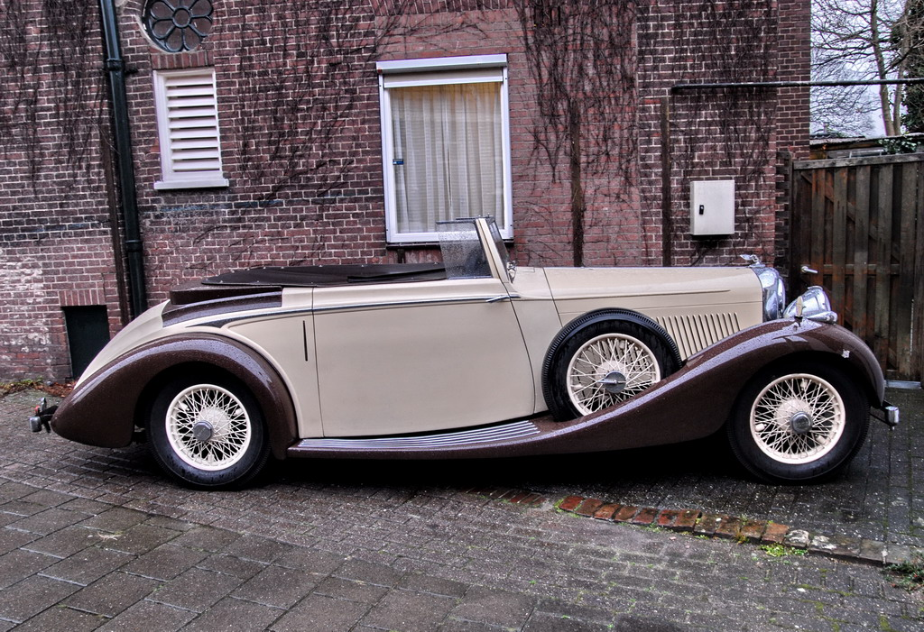 Just a car in the streets of Lisse.